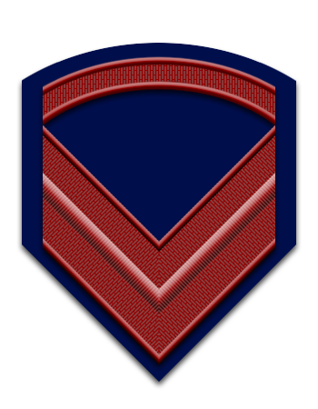 insignia for the sleeves of the rank of chief airman of the Italian Air Force